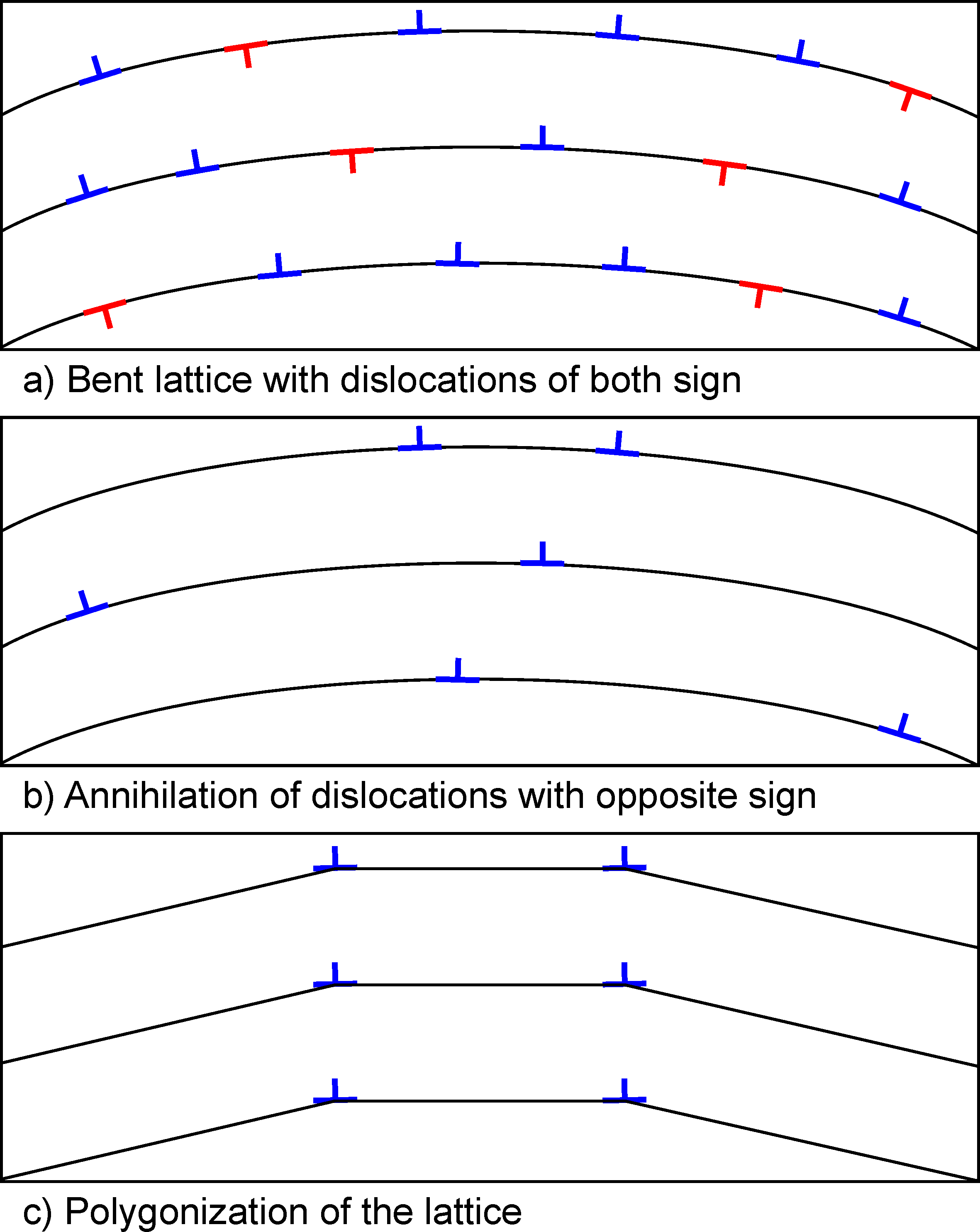 Created by Slinky Puppet on 22 May 2006. The polygonization of a metallic lattice during recovery.